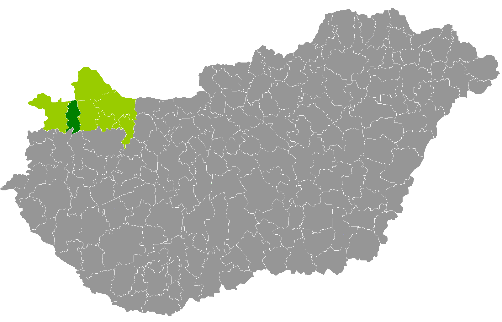 Location of Kapuvár District, Győr-Moson-Sopron, Hungary